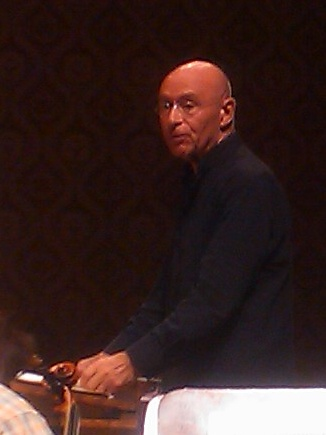 Christoph Eschenbach